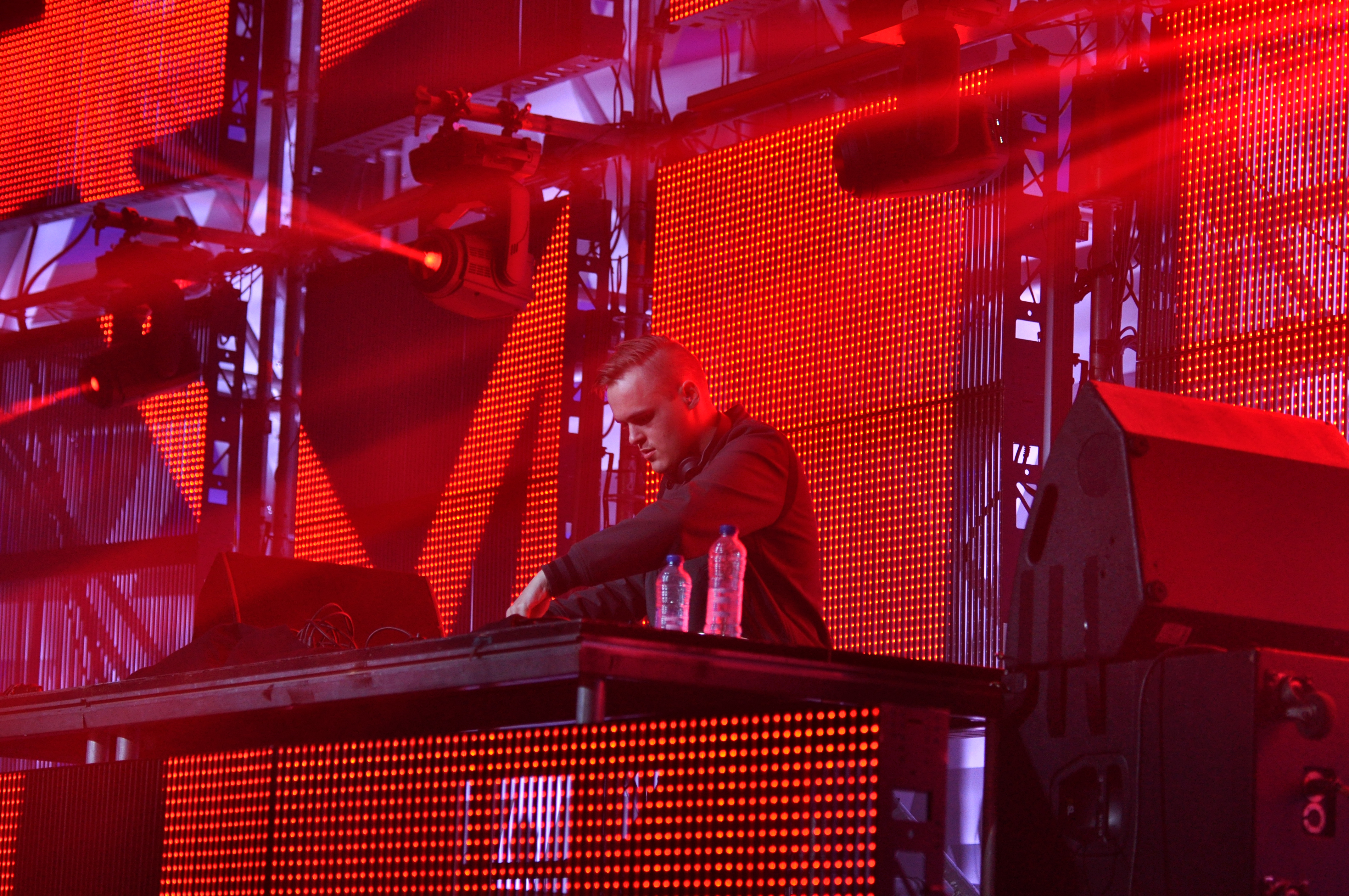 DJ Mike Hawkins at Paaspop 2014